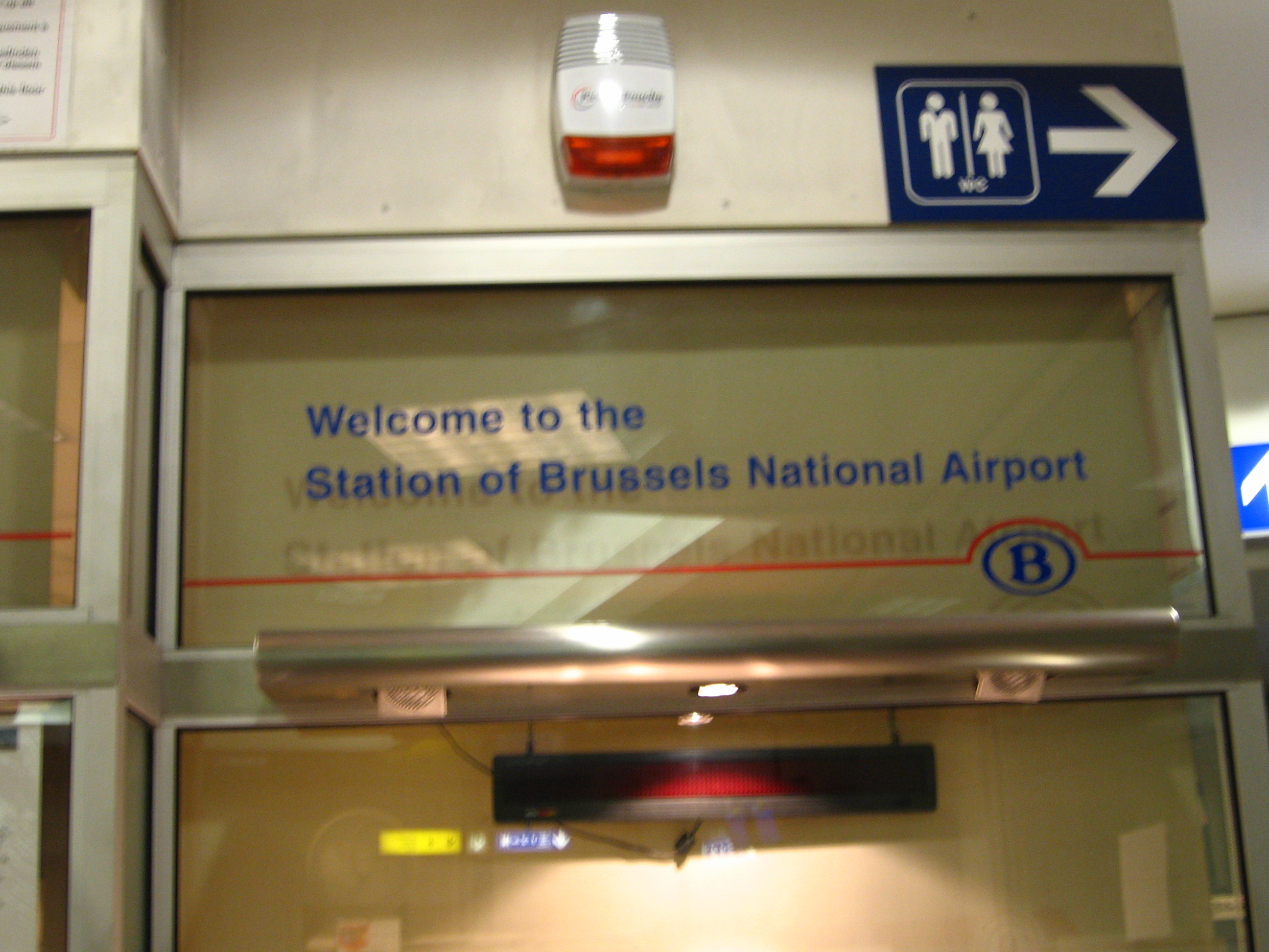 Brussels airport rail way station